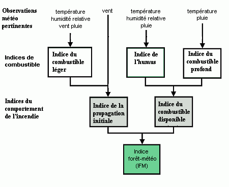 French flowchart of the Forest fire weather index composition.